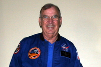 Astronaut John Fabian, taken at the Kennedy Space Center Visitors Center "Astronaut Encounter"